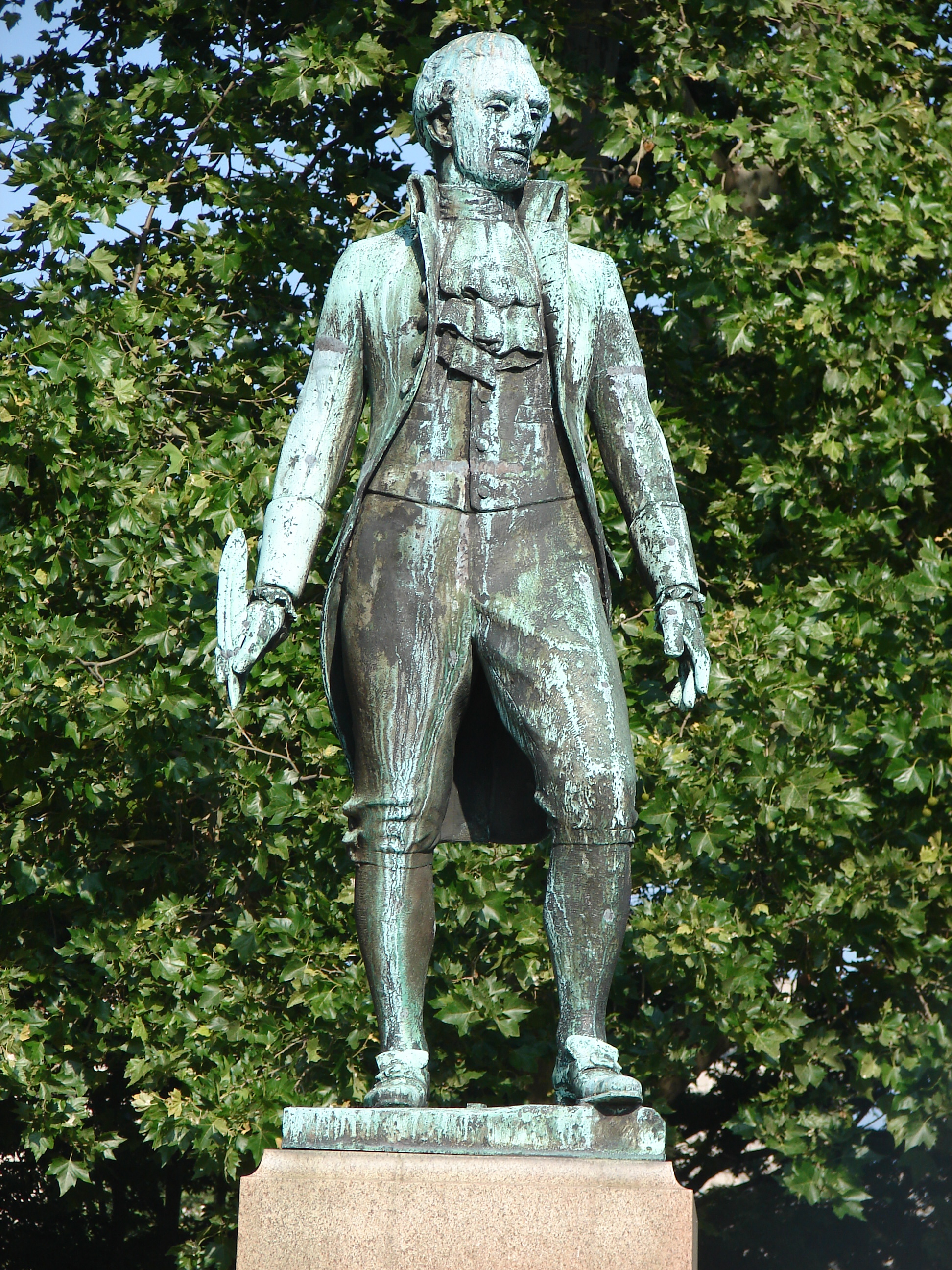 Statue of Thomas Fitzsimmons (or FitzSimmons - he used both) a signer of the Declaration of Independence. On the Ben Franklin Parkway in Philadelphia